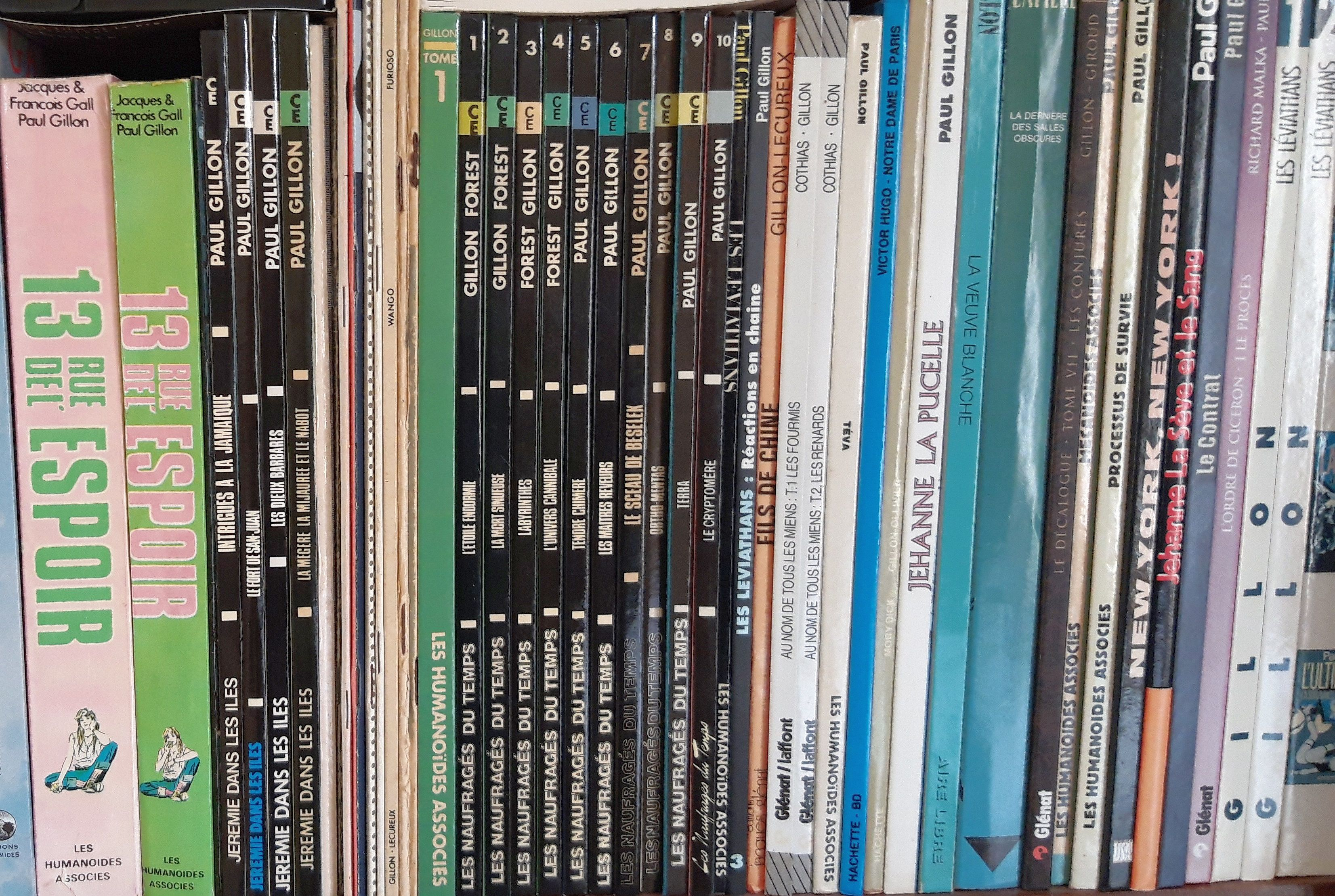 Gillon 1 books.